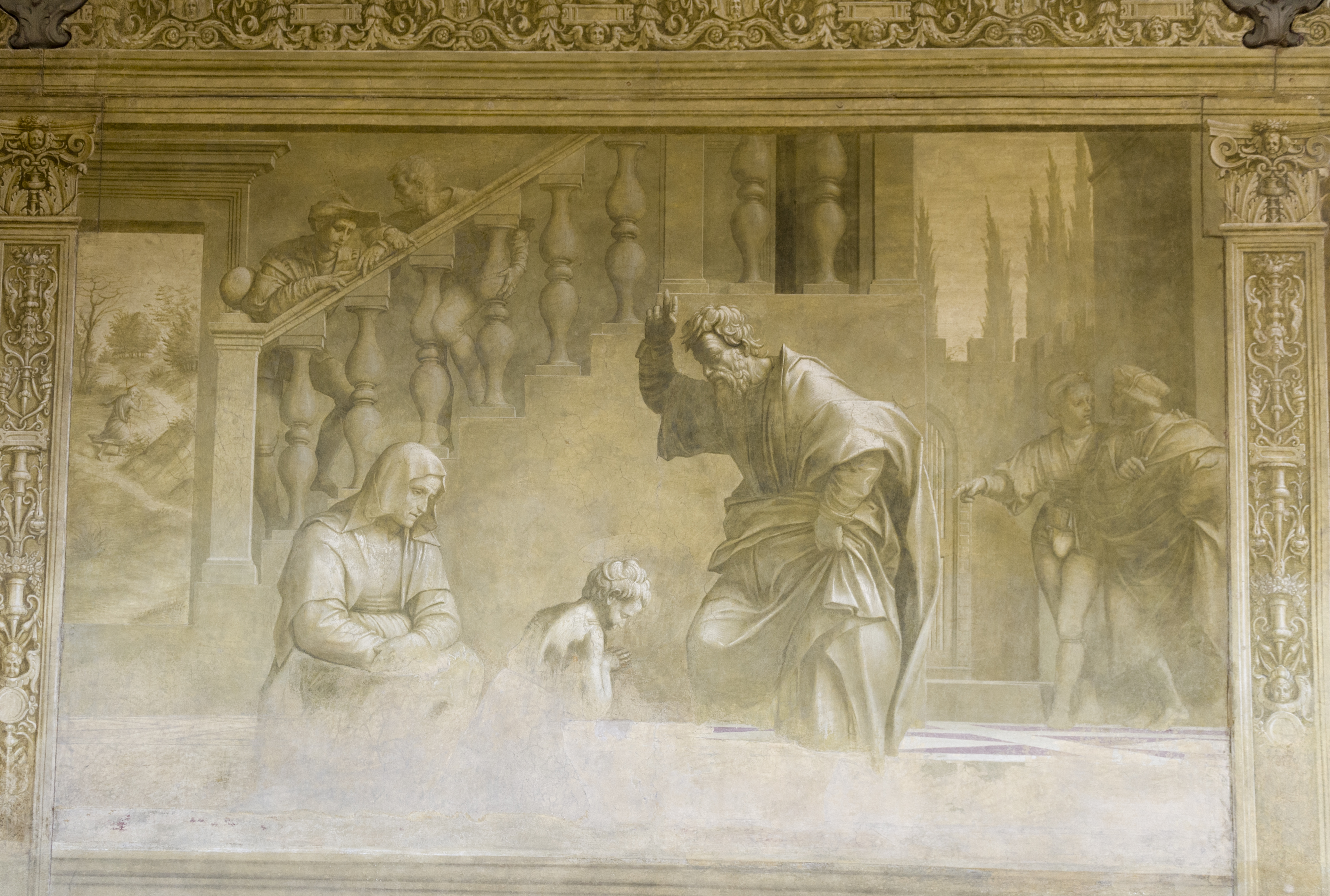 "Blessing of the Young St. John" by Francesco di Cristofano